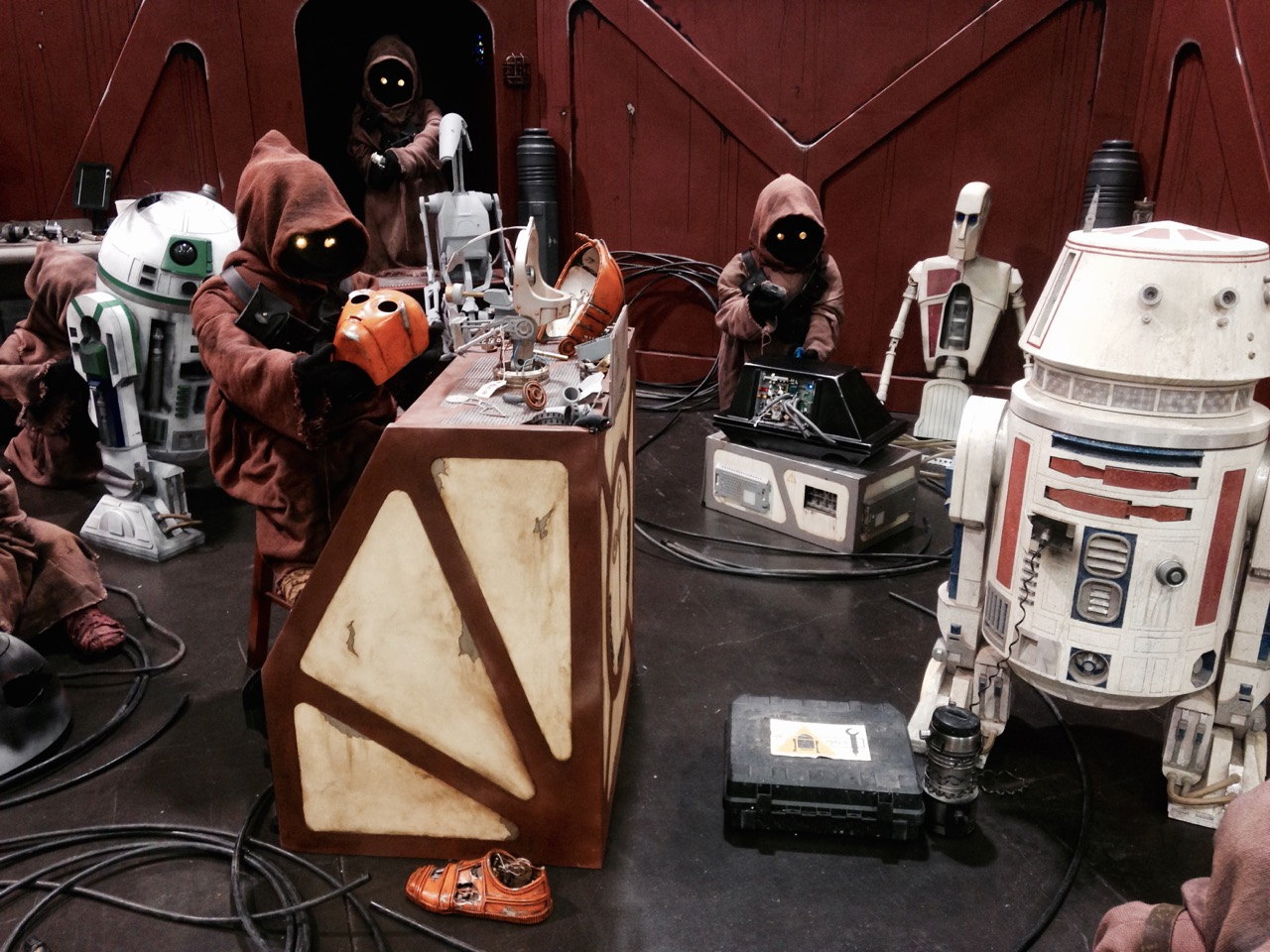 A set of Jawas and their droids at Star Wars Celebration 2015 at the Anaheim Convention Center. Star Wars Celebration in Anaheim, April 2015.